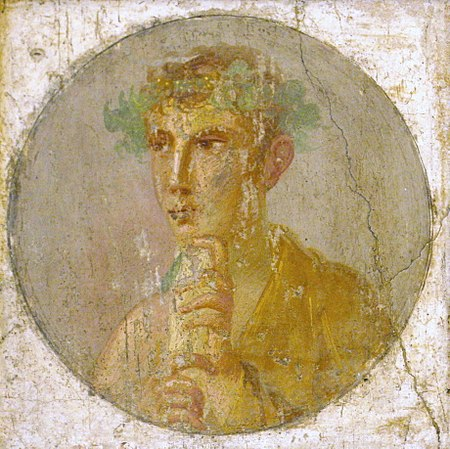 resco portrait from Pompeii, 1st century AD of a man holding a papyrus roll